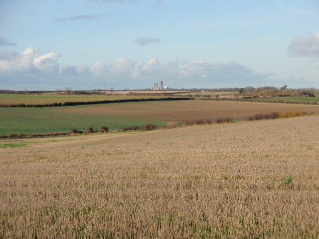 Lincoln Cathedral from Branston